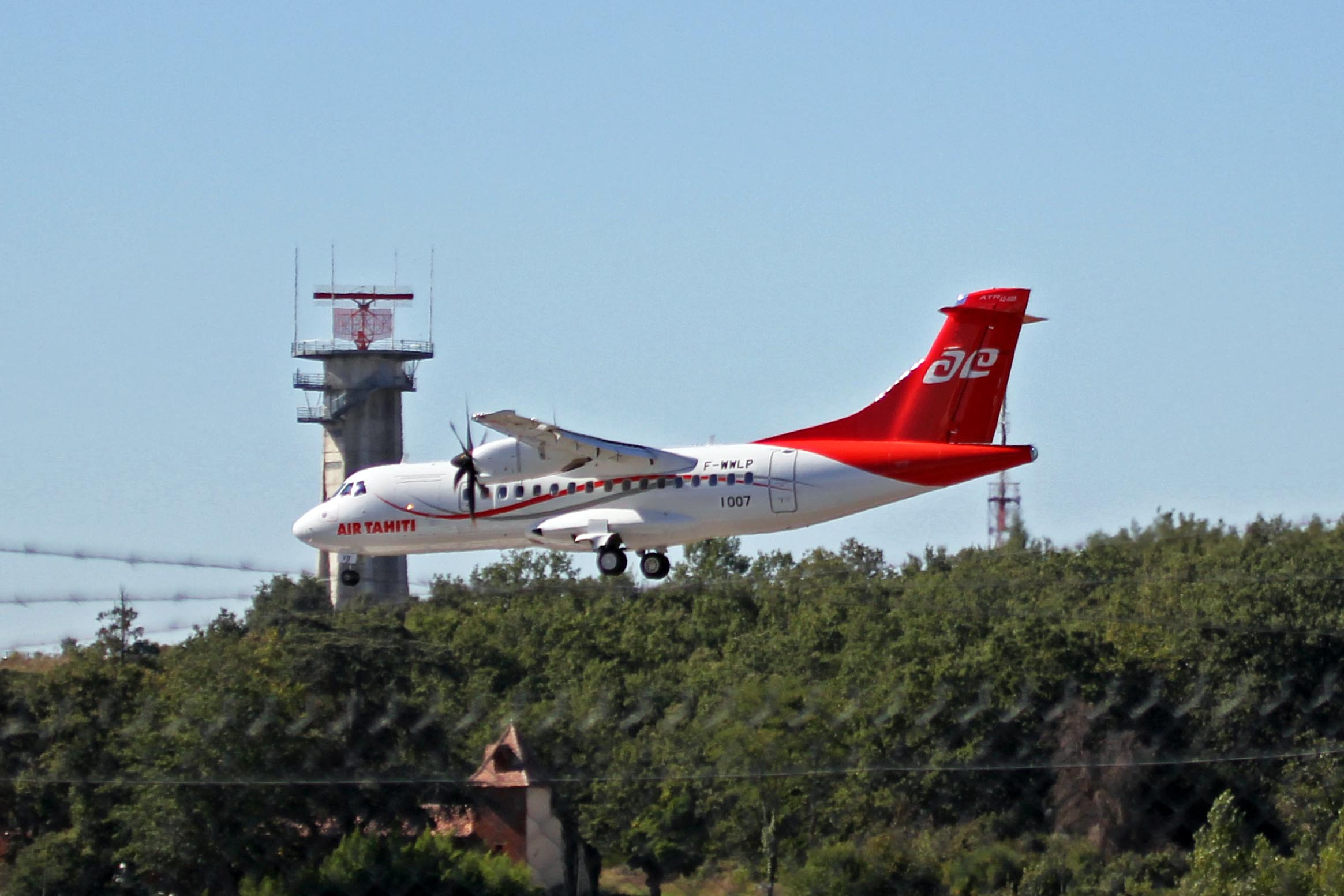 I didn't see this until it was almost too late